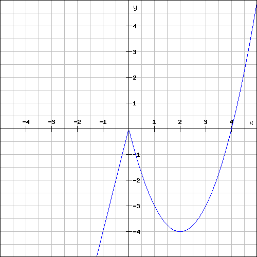 Graph